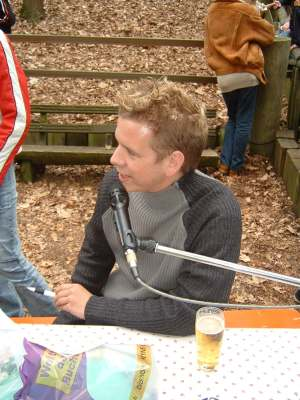 German Radio host Marc Torke at Alpen (Germany)